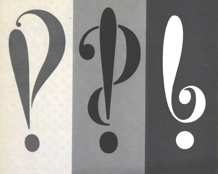 interrobang Jack Lipton